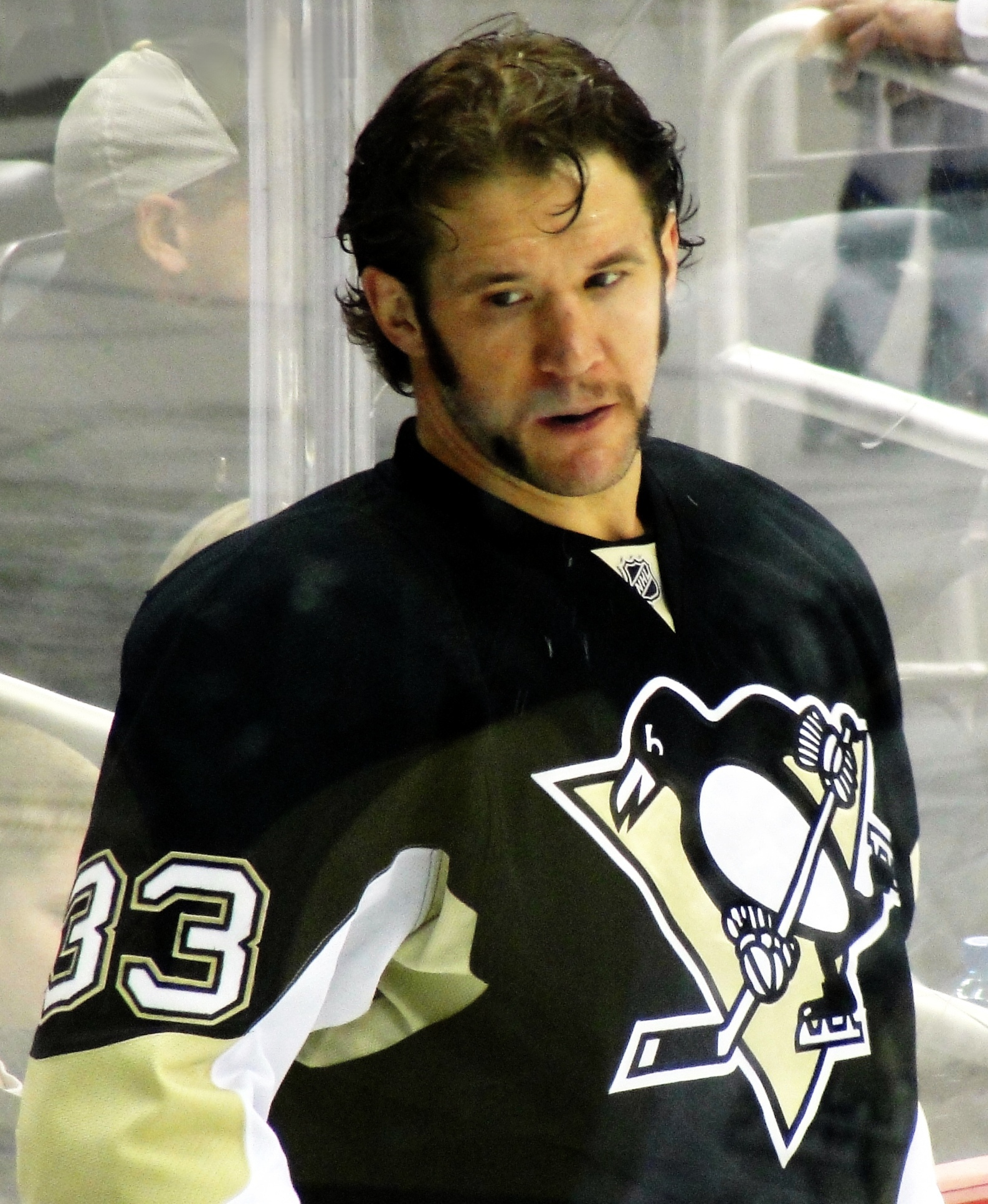 Steve MacIntyre of the Pittsburgh Penguins prior to a game against the St. Louis Blues, November 23, 2011 at Consol Energy Center in Pittsburgh, PA.